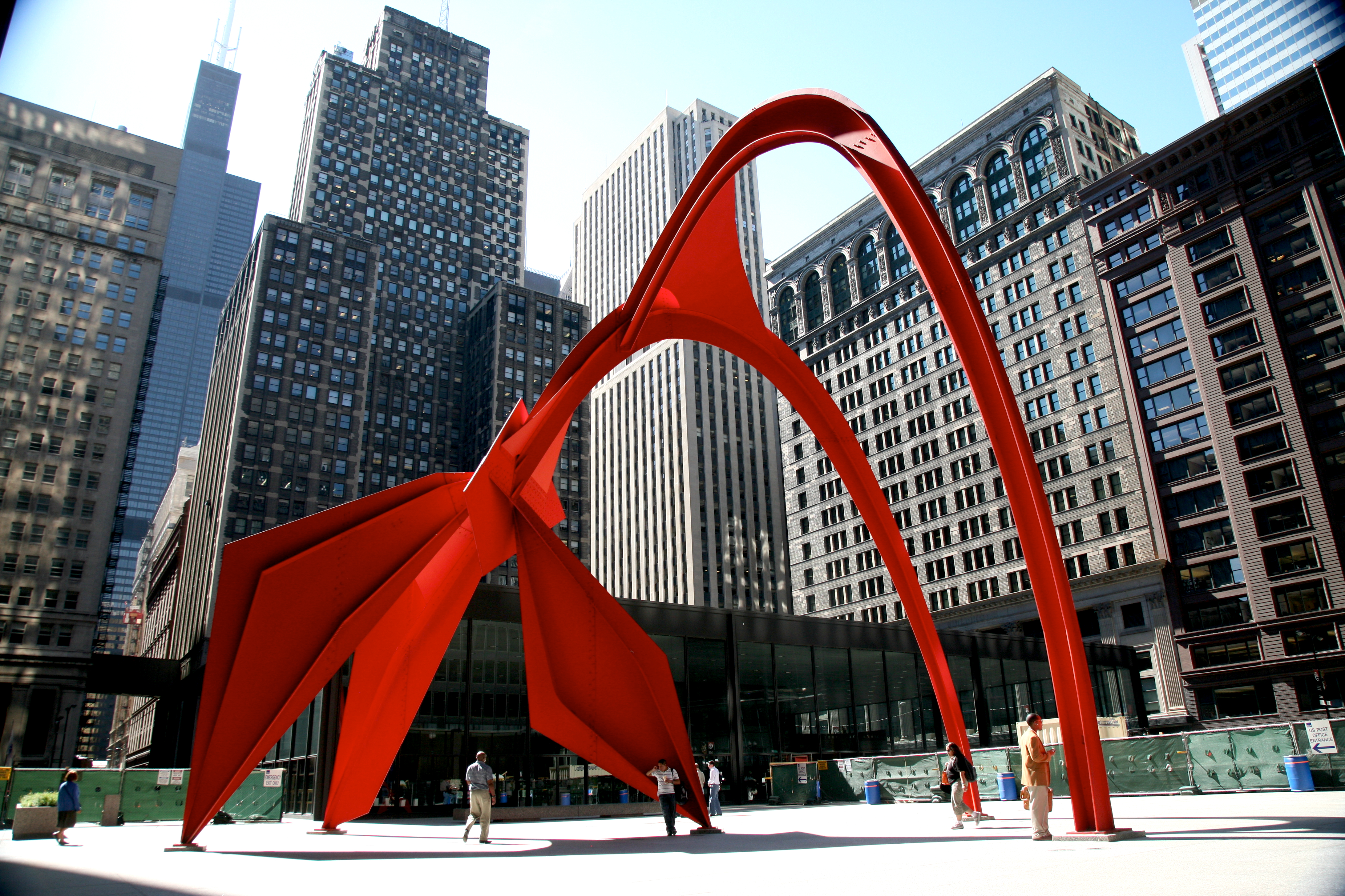 Flamingo, created by noted American artist Alexander Calder, is a 53 foot (16 m) tall stabile located in the Federal Plaza in front of the Kluczynski Federal Building in Chicago, Illinois, United States. It was commissioned by the United States General Services Administration and was unveiled in 1974, although Calder's signature on the sculpture indicates it was constructed in 1973. Flamingo weighs 50 tons, is composed of steel, and is vermilion in color. Calder gave the stabile its color, which has come to be called "Calder red", to offset it from the black and steel surroundings of nearby office buildings, including the Ludwig Mies van der Rohe-designed Kluczynski Federal Building. The stabile is an art form which Calder pioneered. It is an abstract structure that is completely stationary, as opposed to a mobile, which can move with air currents. Calder was commissioned to design the sculpture because of his well-established international reputation; the space, surrounded by rectangular modern buildings, necessitated the kind of arching forms and dynamic surfaces that a large-scale Calder stabile could provide. Flamingo was the first work of art commissioned by the General Services Administration under the federal Percent for Art program, which allocates a percentage of a project's budget to public art. Calder unveiled the model for Flamingo on April 23, 1973 at the Art Institute of Chicago; the sculpture was presented to the public for the first time on October 25, 1974, at the same time that Calder's Universe mobile was unveiled at the Willis Tower. The day was proclaimed "Alexander Calder Day" and featured a circus parade.